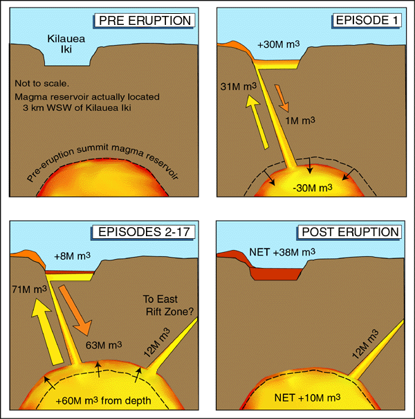 From USGS site